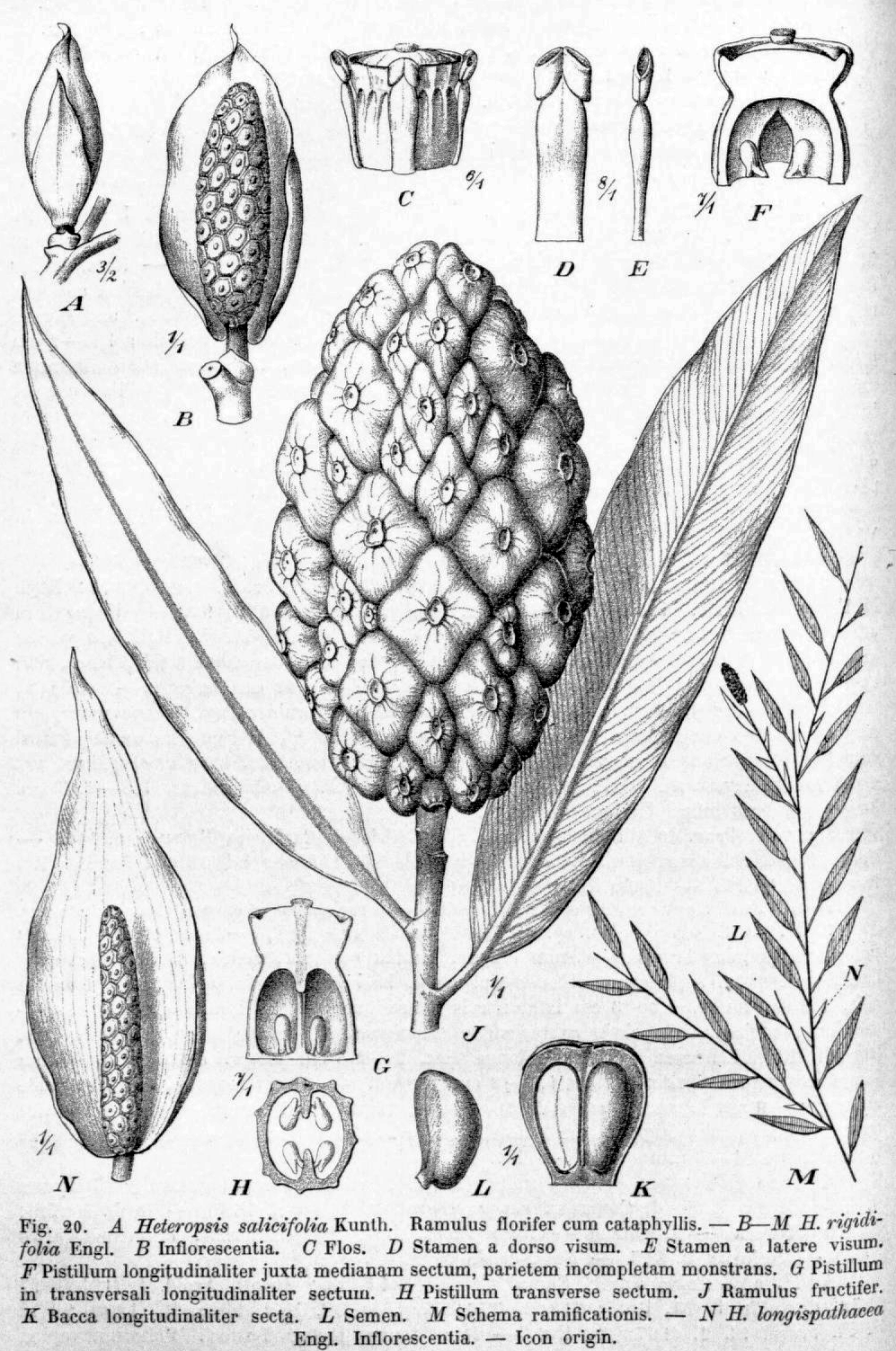 Heteropsis salicifolia botanical drawing